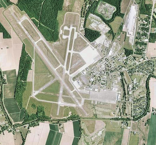 USGS digital orthophoto of England Air Force Base in Louisiana